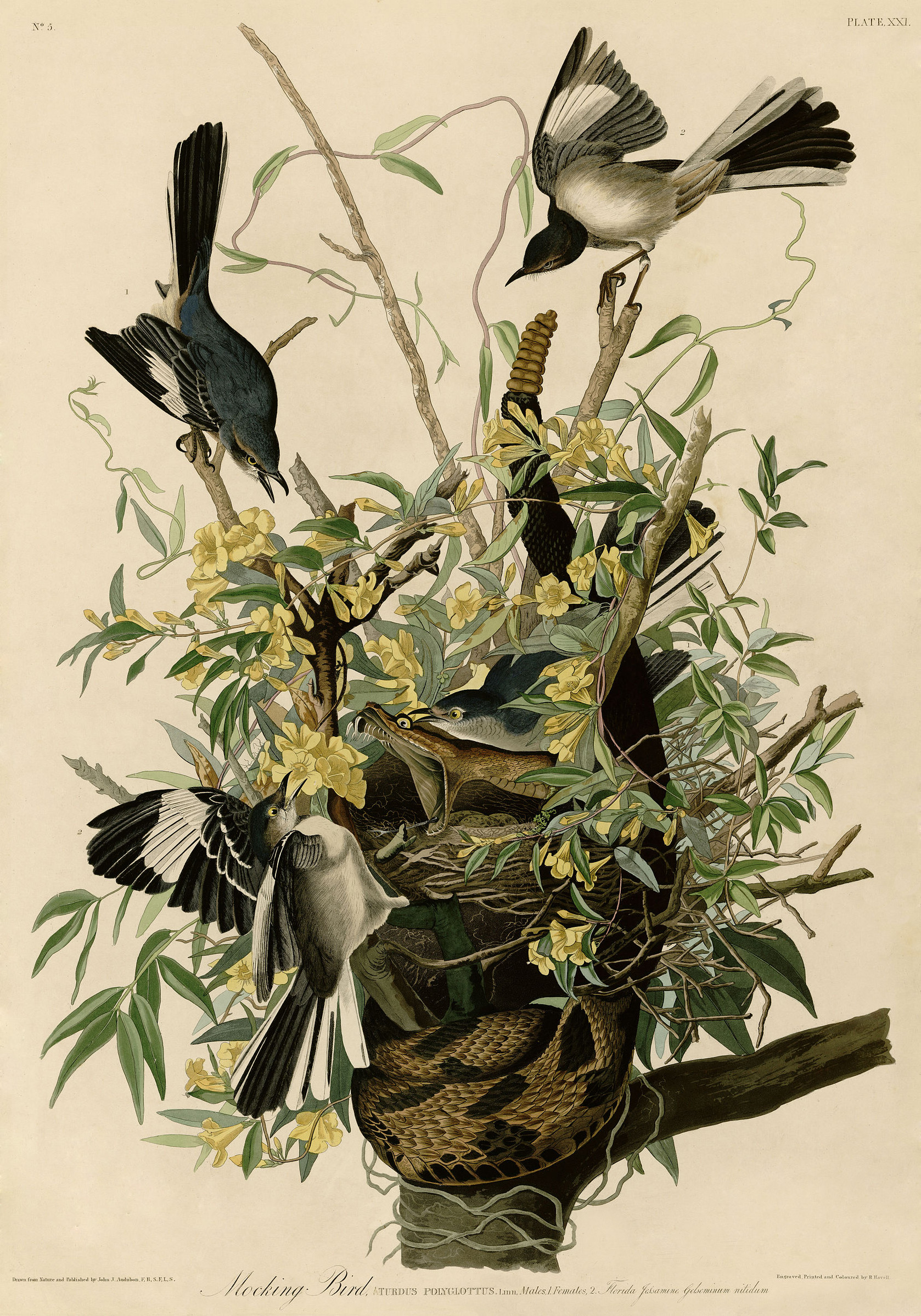 Plate 21 of Birds of America by John James Audubon depicting Mocking Bird.